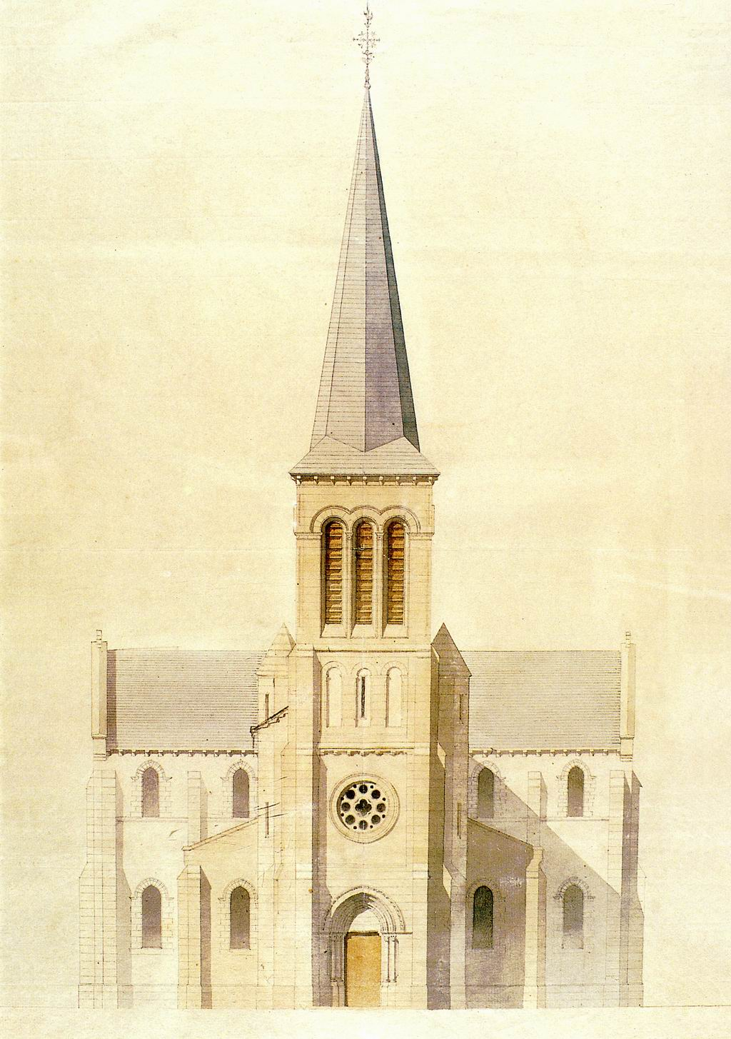 Notre-Dame de Manzat - The church in Manzat - By François-Louis Jarrier (1829-1881)